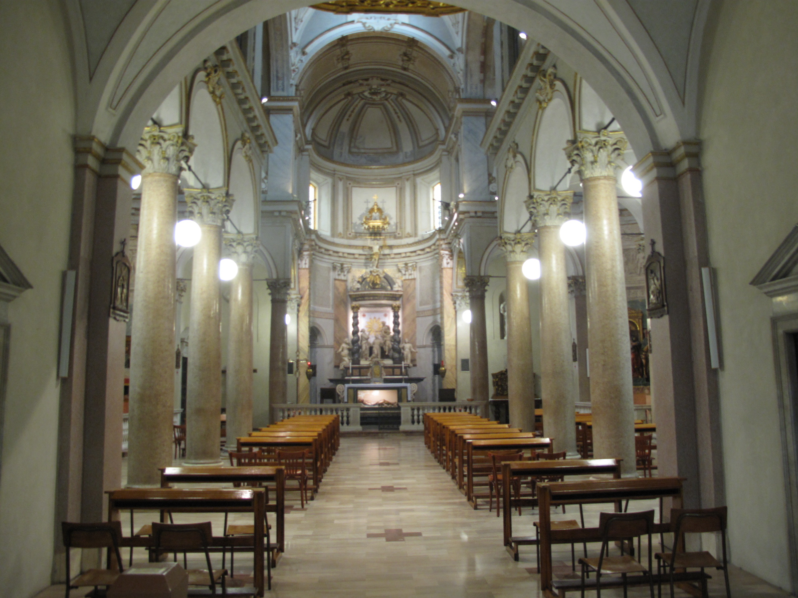 Church of Santo Sepolcro in Milan Italy - Inside